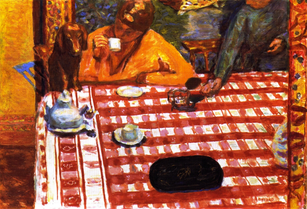 Painting by Pierre Bonnard